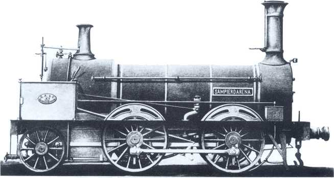 Sampierdarena, the first steam engine built by Ansaldo, Italy